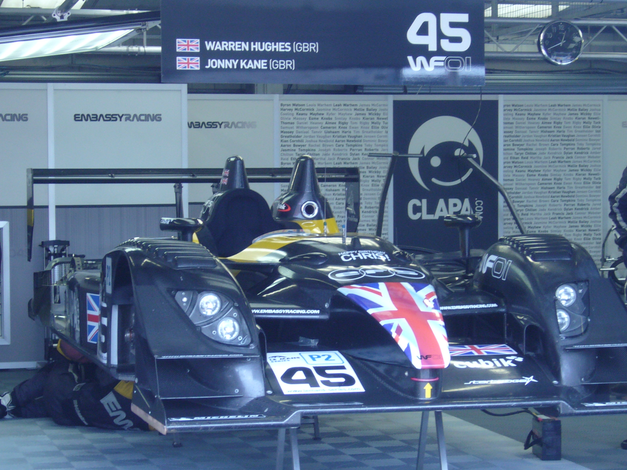 Embassy Racing's Embassy WF01-Zytek at the 2008 1000km of Silverstone